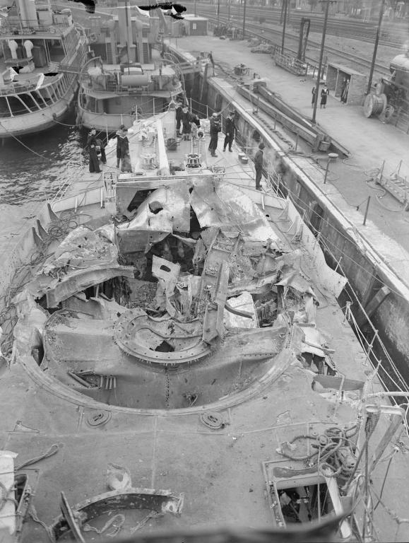 British destroyer HMS Escapade at Greenock. A view looking forward from the bridge showing the damage sustained from a premature mortar bomb explosion on 20 September.